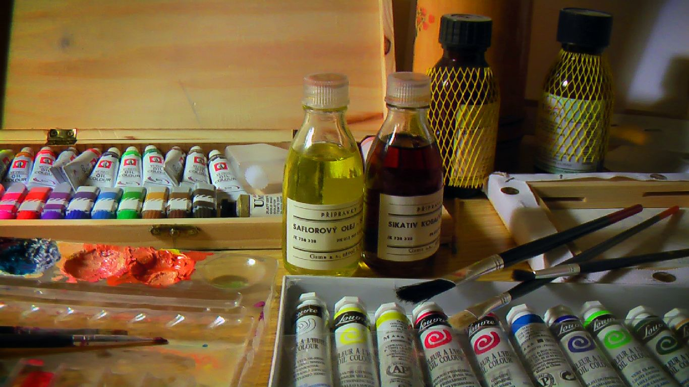 Safflower oil